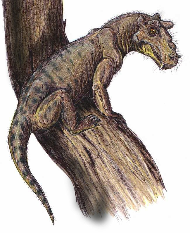 Proburnetia_viatkensis- reconstruction autor - Bogdanov